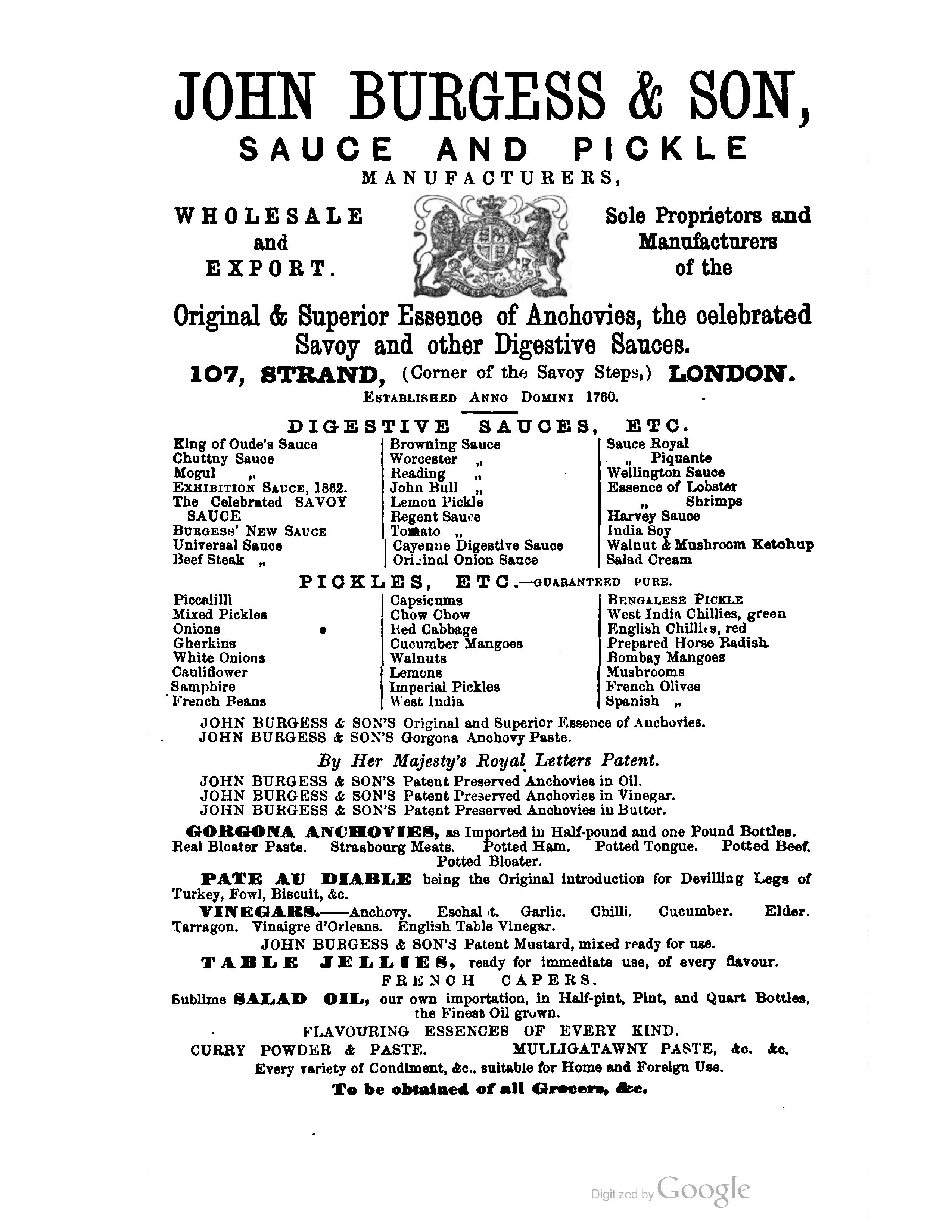 Advertisement for Burgess & Son bottled sauces and condiments (1863)